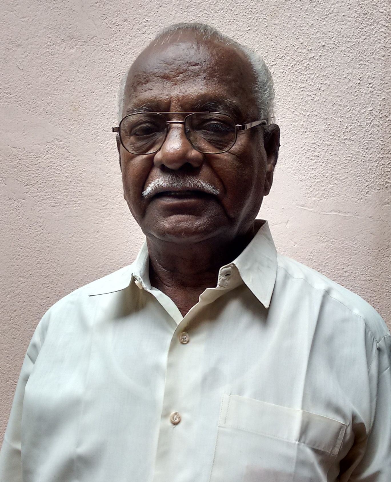 Gnanalaya krishnamoorthy Pudukottai ஞானாலயா கிருஷ்ணமூர்த்தி புதுக்கோட்டை